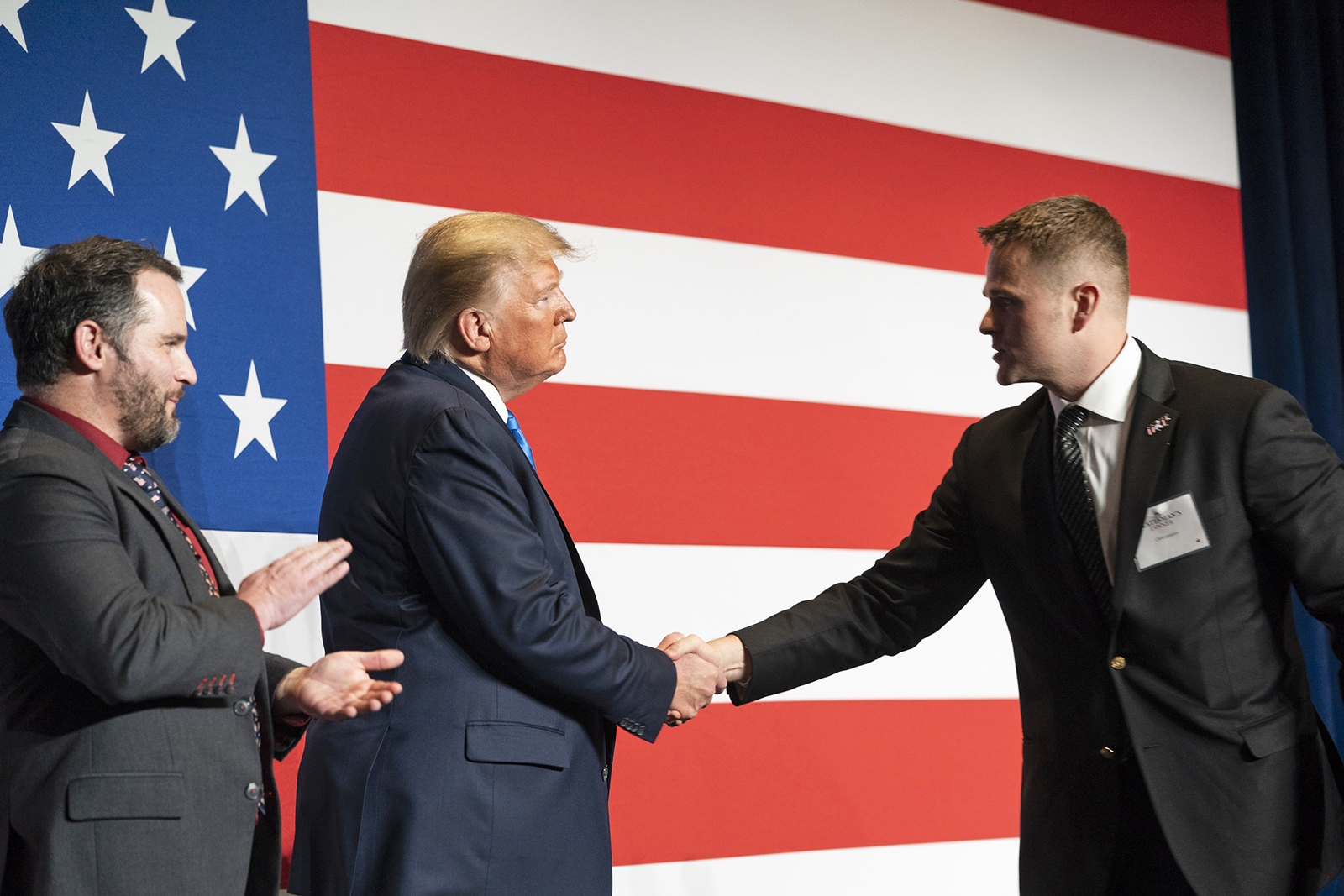 President Donald J. Trump welcomes Army First Lieutenant Clint Lorance and Army Major Mathew Golsteyn to the stage prior to his remarks at the Republican Party of Florida’s Statesman Dinner Saturday, Dec. 7, 2019, in Aventura, Fla. Both soldiers were recently granted full pardons by President Trump on November 15th, 2019. (Official White House Photo by Joyce N. Boghosian)